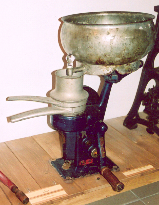 Hand propelled milk centrifuge for milk and cream production. Picture from Muzeum másla (Museum of Butter), Máslovice, Czech Republic